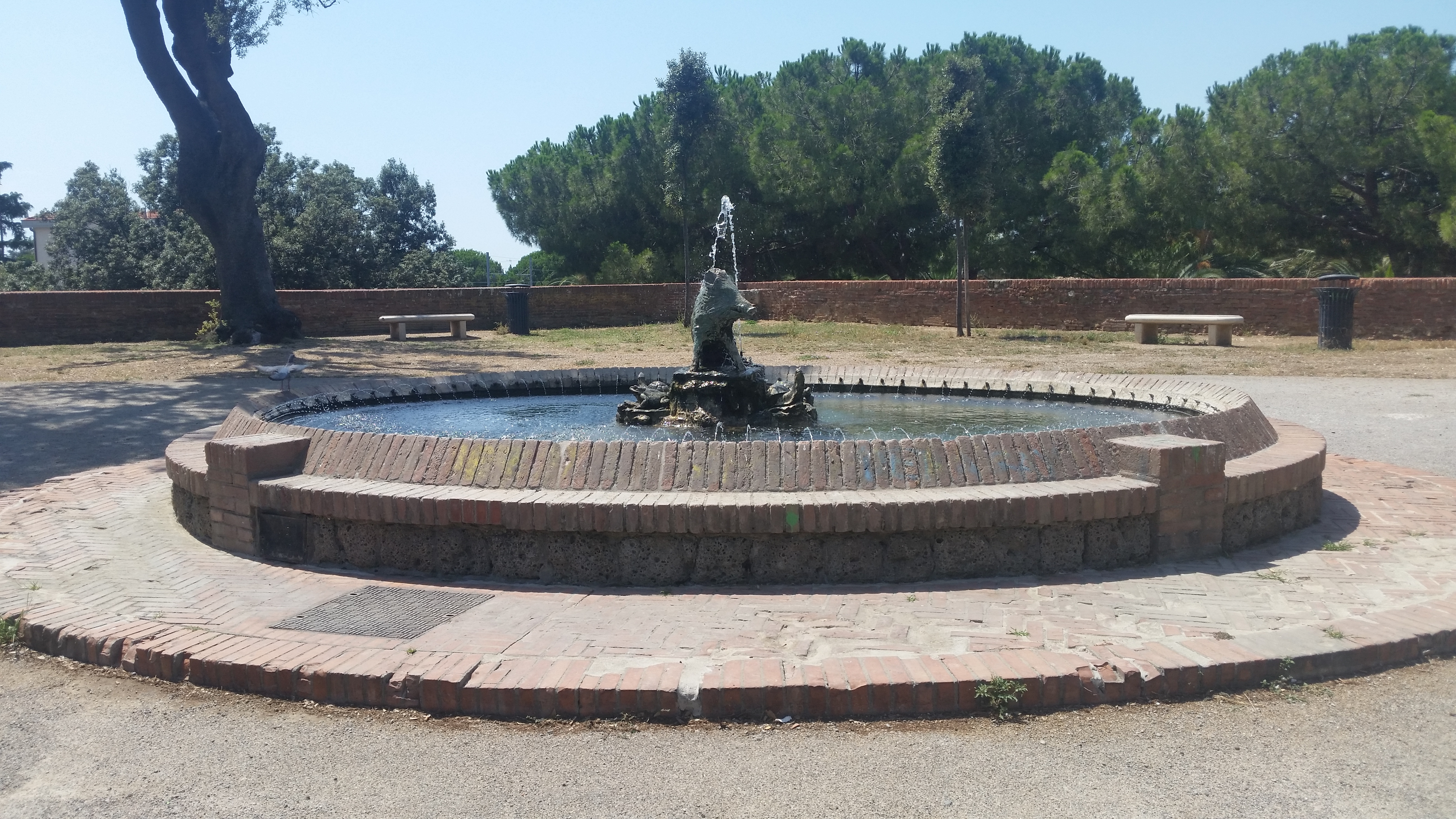 Bastione Molino a Vento in Grosseto